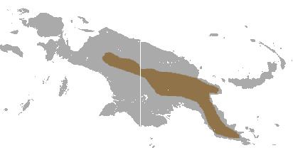 Mountain Cuscus (Phalanger carmelitae) range